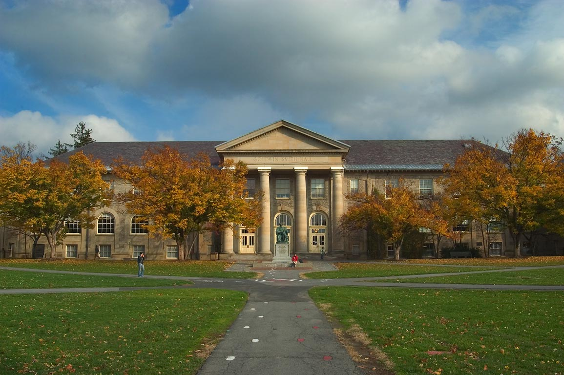 (Alex Sergeev